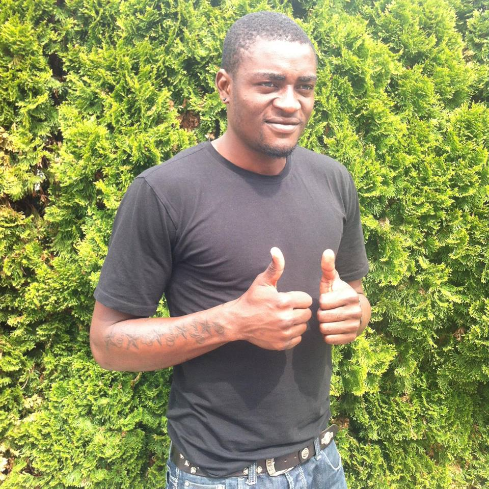 Thierry Alain Mbognou in Novo mesto in april 2014